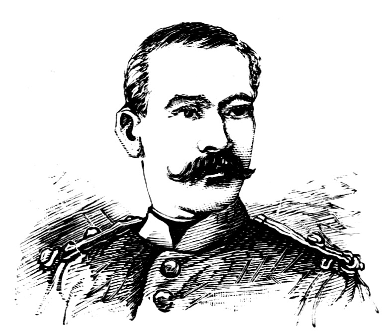 Dimitrios Dimitressas (1860-1886): Greek soldier, illustration from Imerologion Skokou 1887